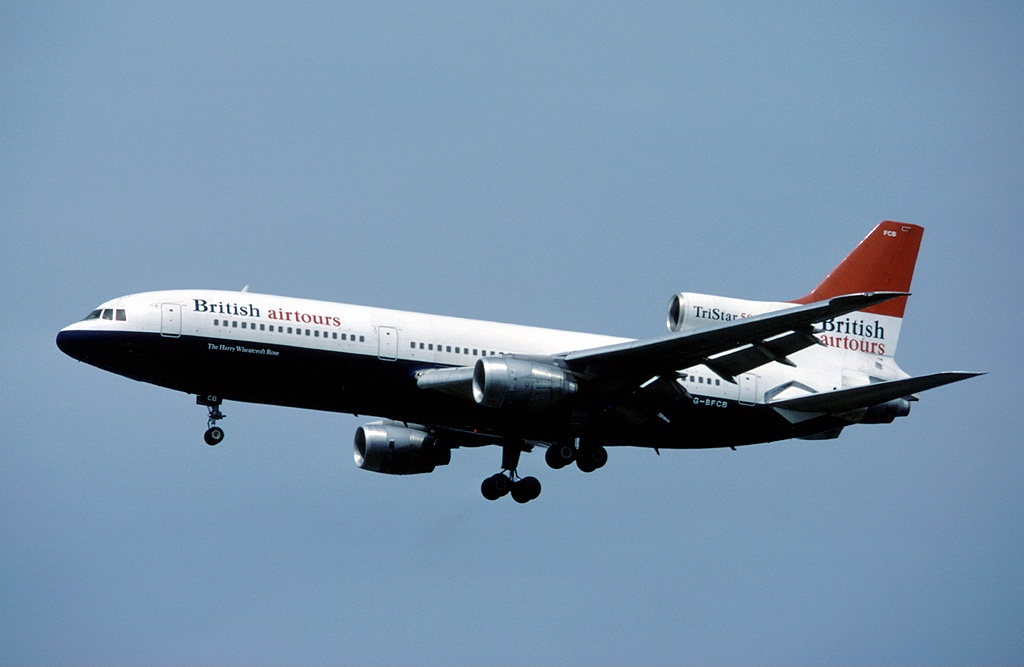 British Airtours Lockheed L-1011-385-3 TriStar 1 G-BFCB The Harry Wheatcraft Rose at London Gatwick Airport